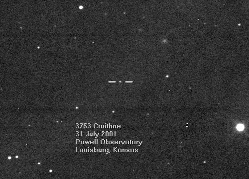 Earth co-orbital Asteroid 3753 Cruithne